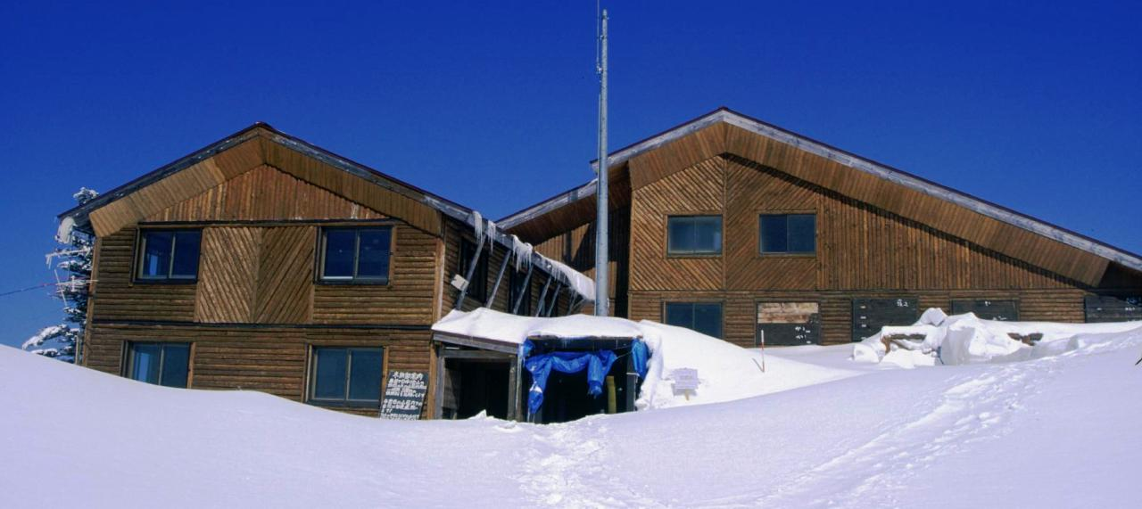 Hut_Nishihosanso (Nishiho-sanso) in Mount Nishihotaka, hida Mountains, Japan.